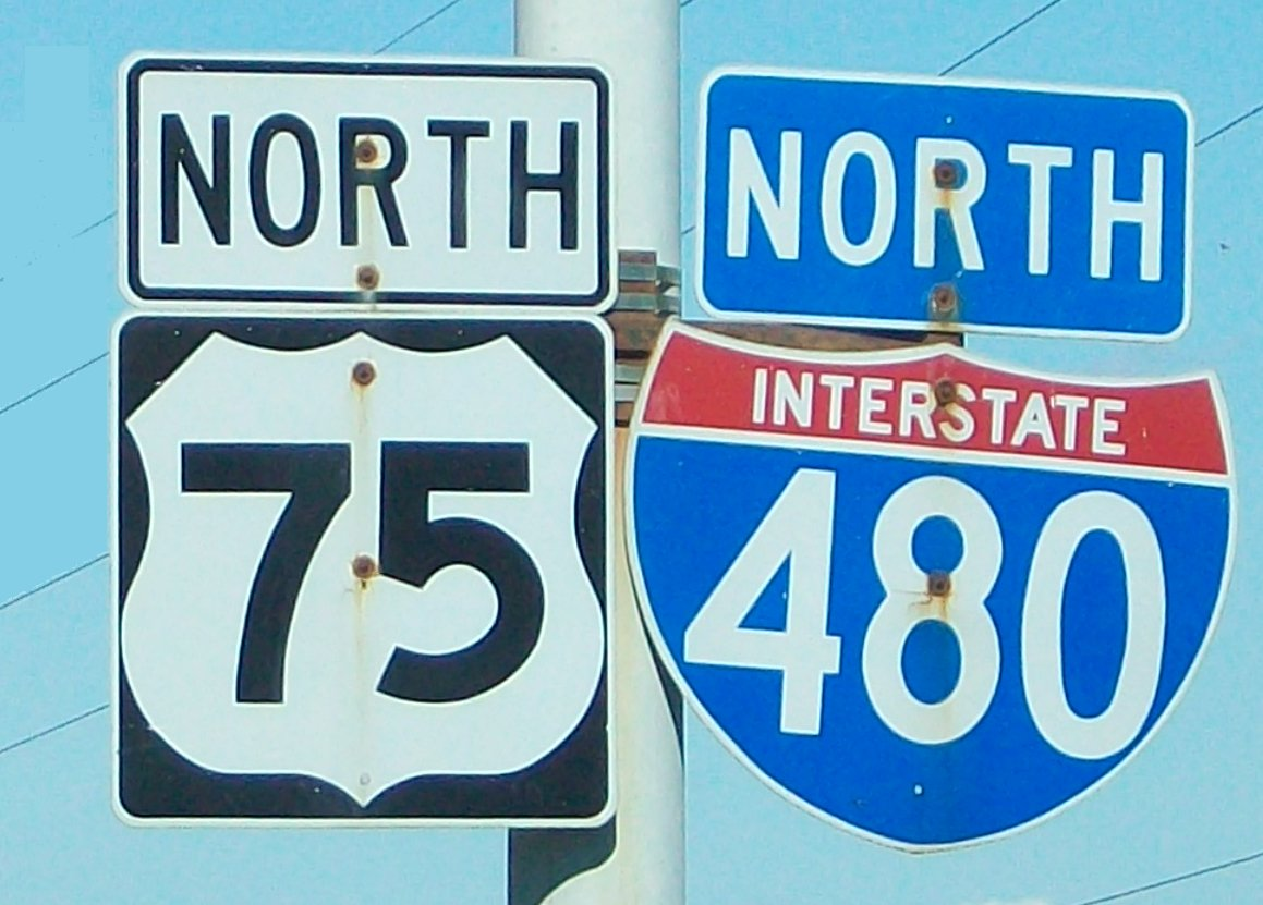 Sign for Interstate 480 and US Highway 75, in Omaha, Nebraska